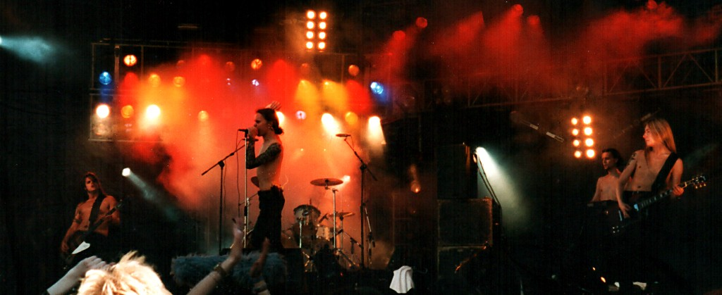 The Finnish rock band HIM, consisting at the time of basist Mige, singer Ville, drummer Gas (barely visible here), keyboardist Juska, and guitarist Linde performing at the Provinssirock festival in Seinäjoki, Finland, in June 1999.